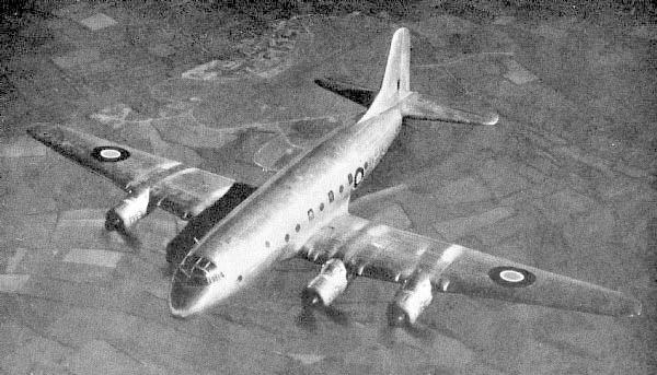 Handley Page Hastings transport. Photograph published in: Aircraft of the Fighting Powers Vol VII Ed: O G Thetford Harborough Publishing Co, Leicester, England 1946.